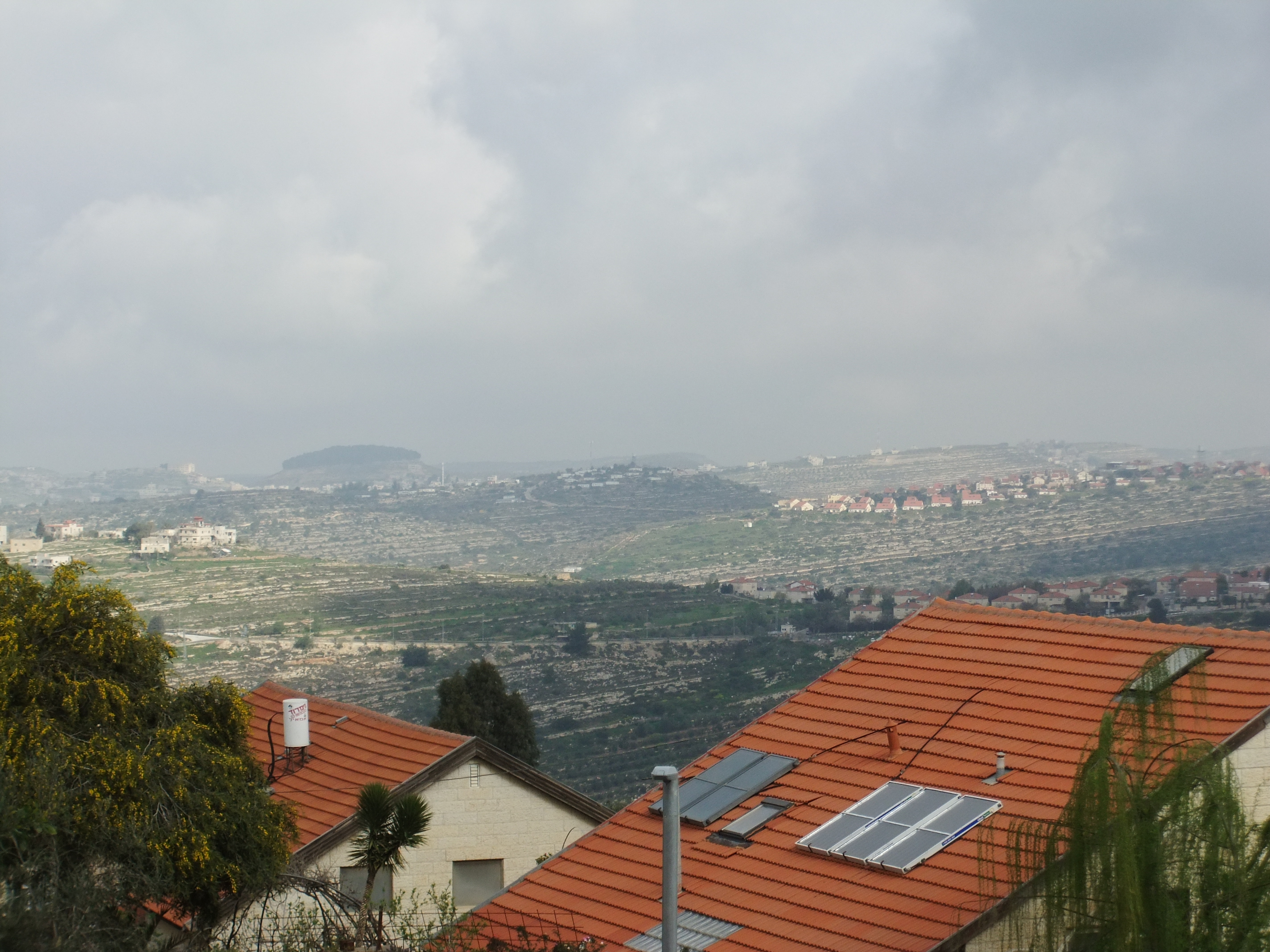 The picture was taken from Dolev. The large roof tops in the front of the picture are the houses of Dolev. The near houses on the right are Talmon. Behind them are the red-roofed houses of Neriya. To the left of Neriya are the Caravans and tower of Zayit-Raanan. To its left is Deir Amar. Behind Deir 'Ammar is Nebi It the bulging mountain covered by a forest. The near houses on the left are part of Al-Janiya